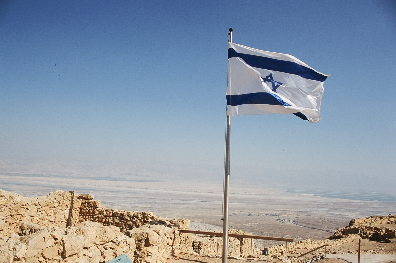 Israel, View of the Dead Sea from Masada - Israelic Flag - Israel 2nd day (22 march 2005)